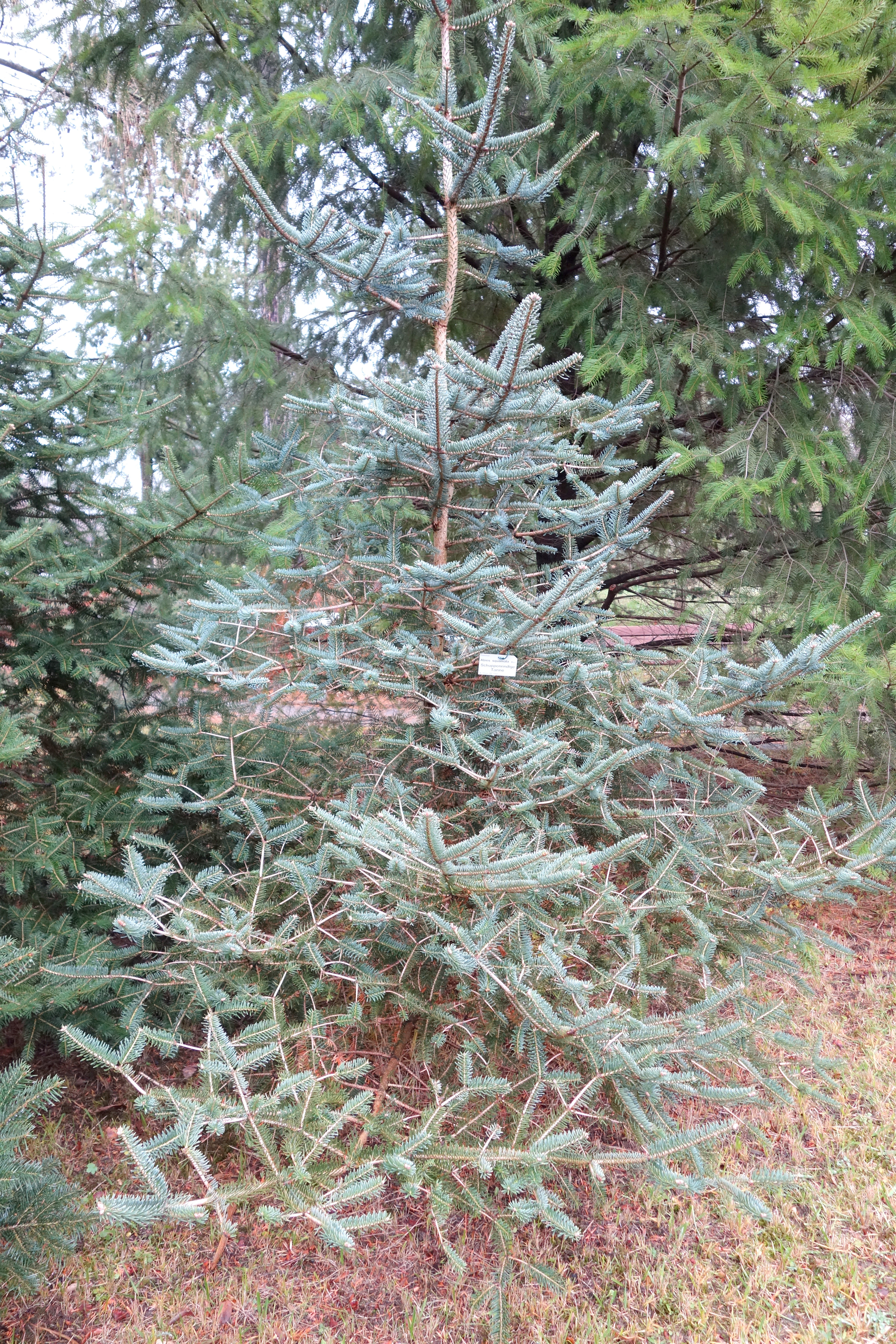 Botanical specimen in the Botanischer Garten, Dresden, Germany.